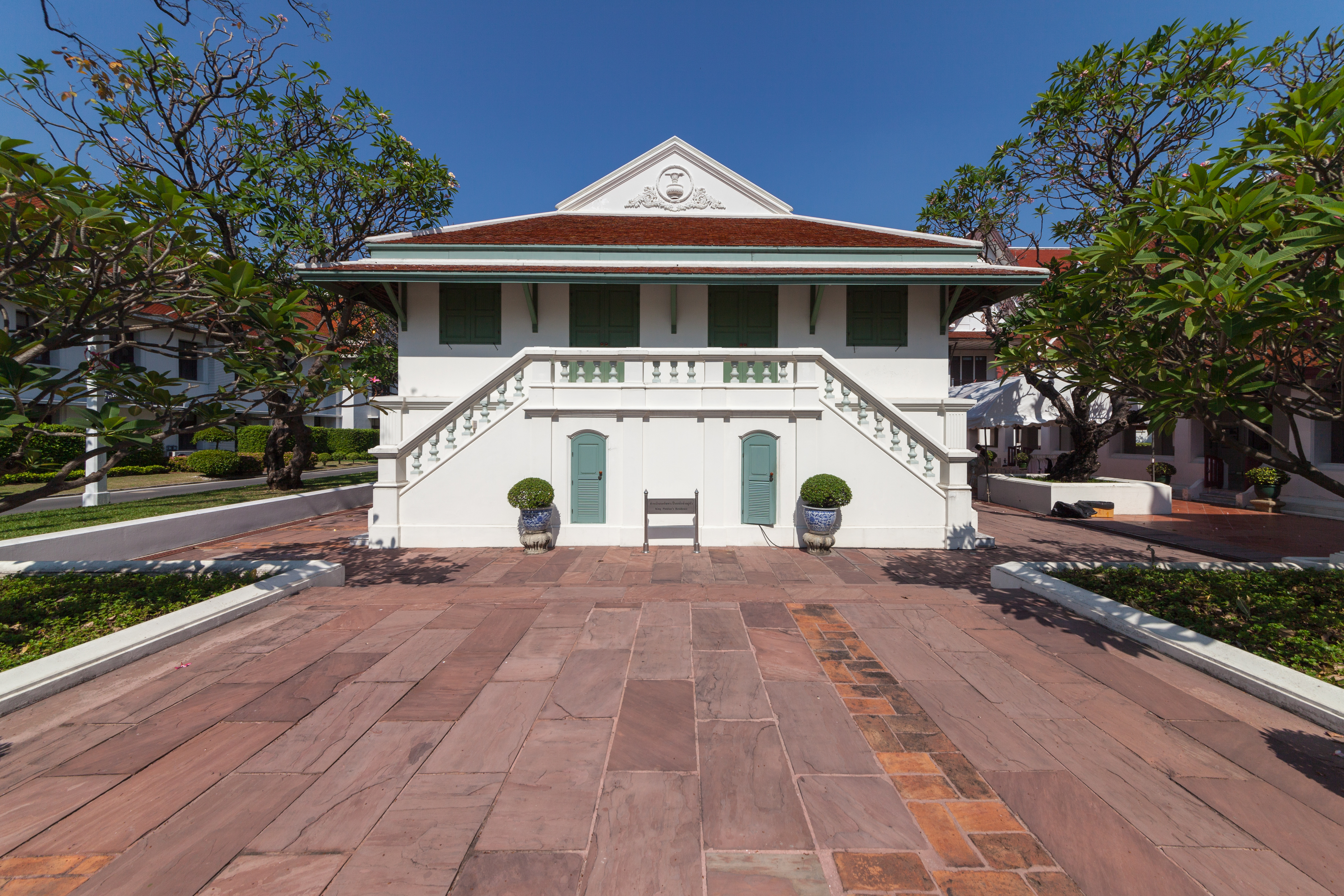 King Pinkloa's Residence is the one of the first Western-style building in Rattanakosin era located at Phra Racha Wang Derm, Bangkok.